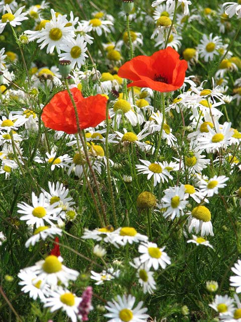 Standing out The red poppies form a pleasant contrast to the white Dog chamomile flowers; both plants are typically found growing on verges and field margins; thriving in disturbed soils they can sometimes be troublesome in arable fields, particularly in cereals.